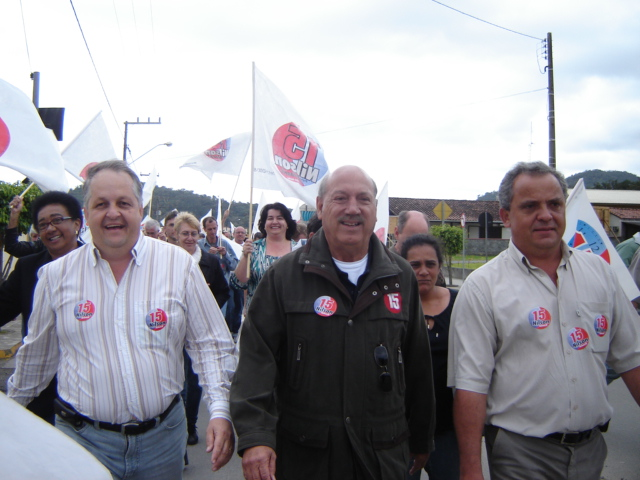 Nilson Bylaardt and Luís Henrique da Silveira